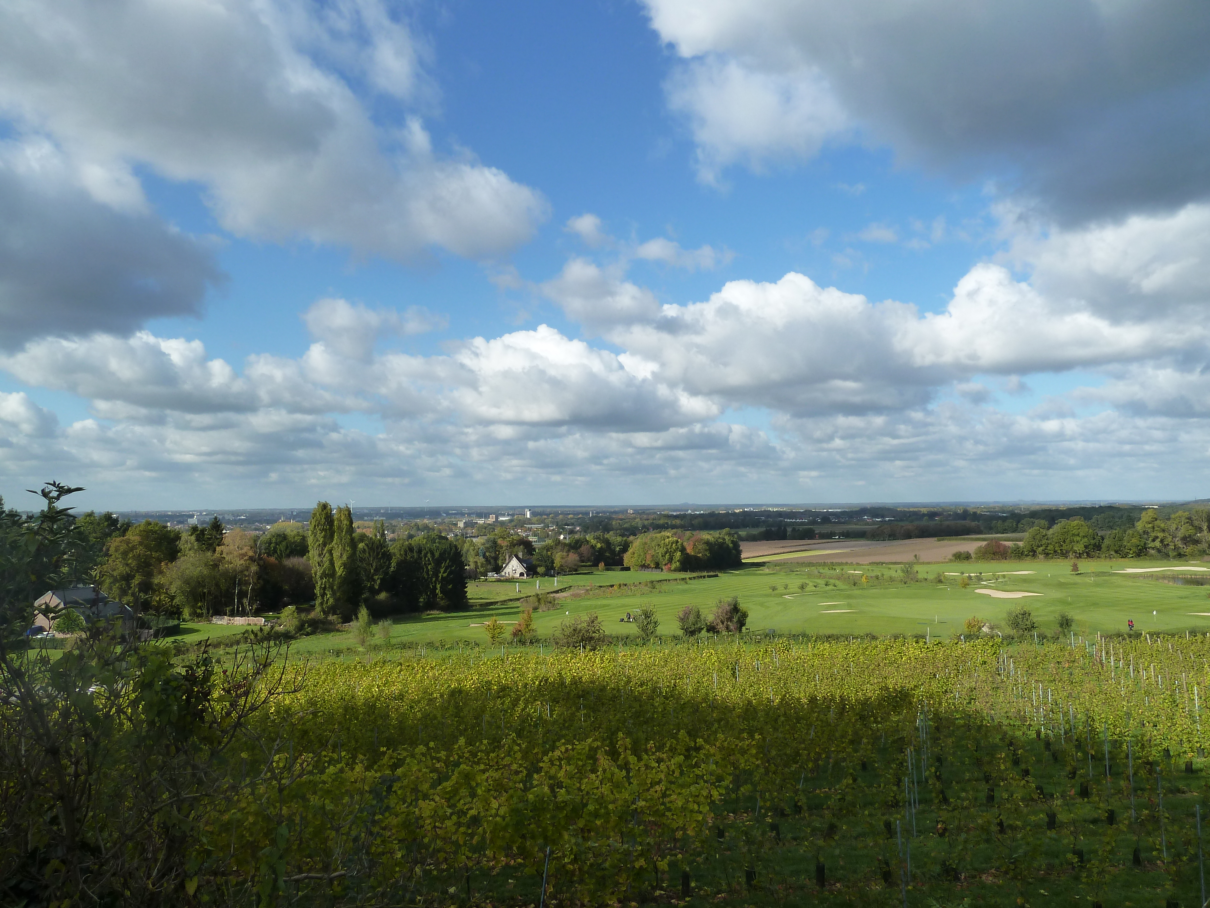 View from the kruiwegstaties, Cadier en Keer, Limburg, the Netherlands